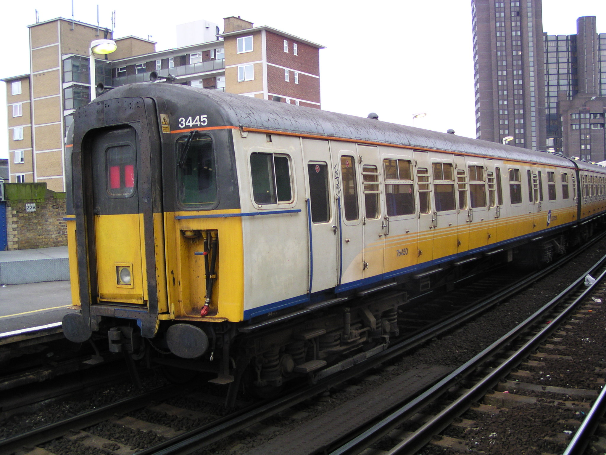 British Rail Class 423 No. 3445 at London Waterloo East on February 8th, 2003, with a service to Charing Cross. This unit is painted in Connex South Eastern livery.